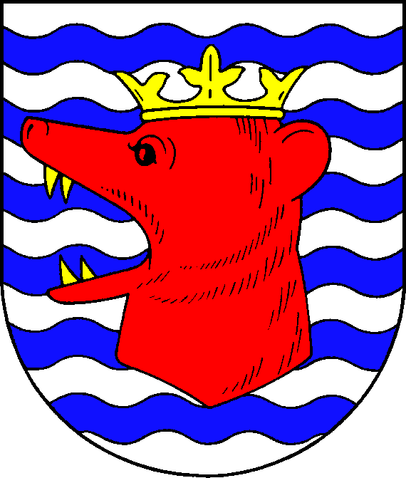 Coat of arms of the municipality Bissee in Schleswig-Holstein, Germany.